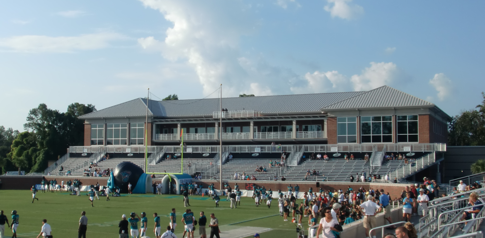 A shot of the Adkins Fieldhouse at Brooks Stadium on the campus of Coastal Carolina University. I took this photo prior to the Coastal Carolina vs Delaware State football game on Sept. 25, 2010.